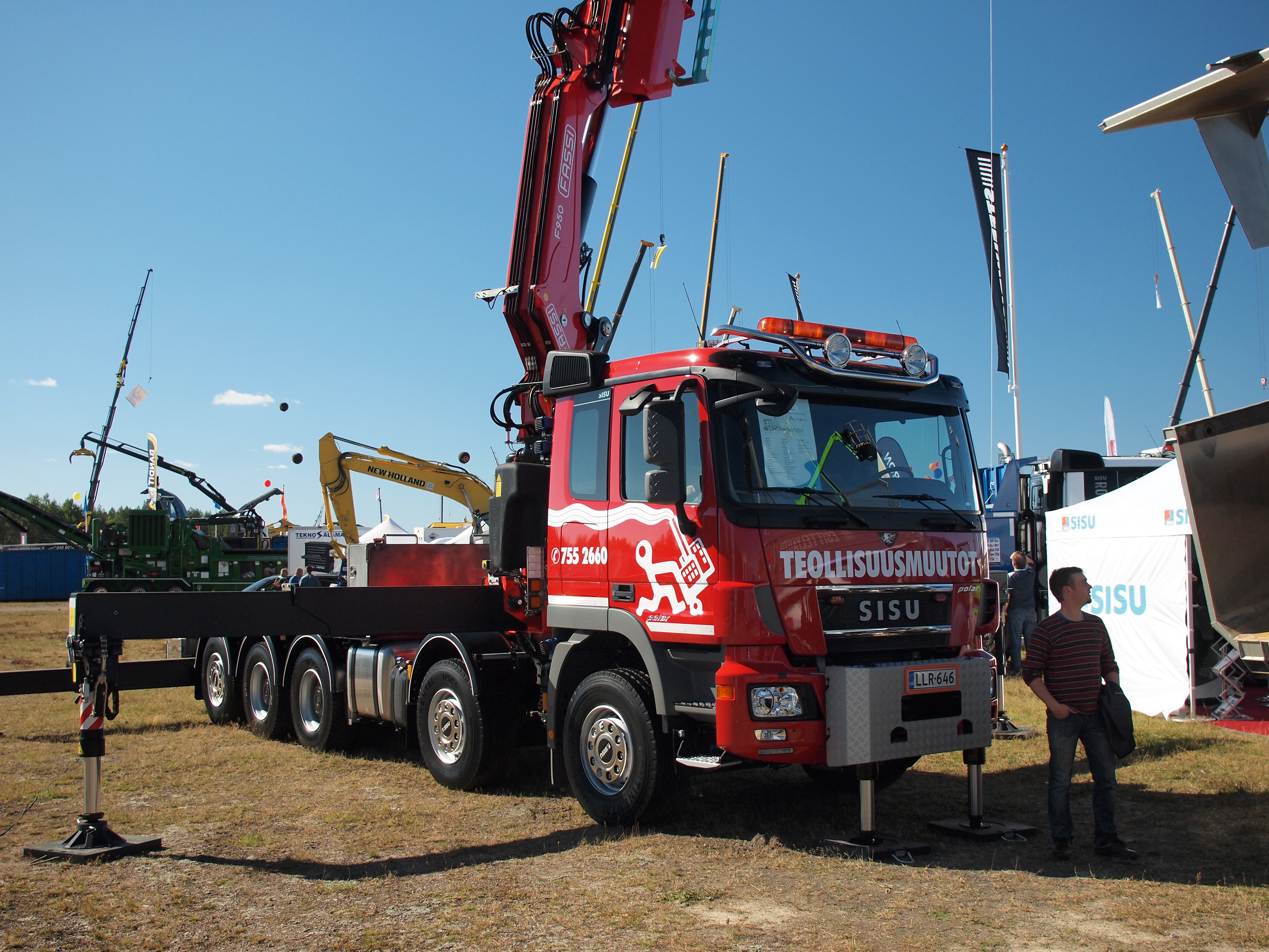 Sisu Crane DK16M KK-KKA-10x4/225+270+137+136 in Hyvinkää, Finland.